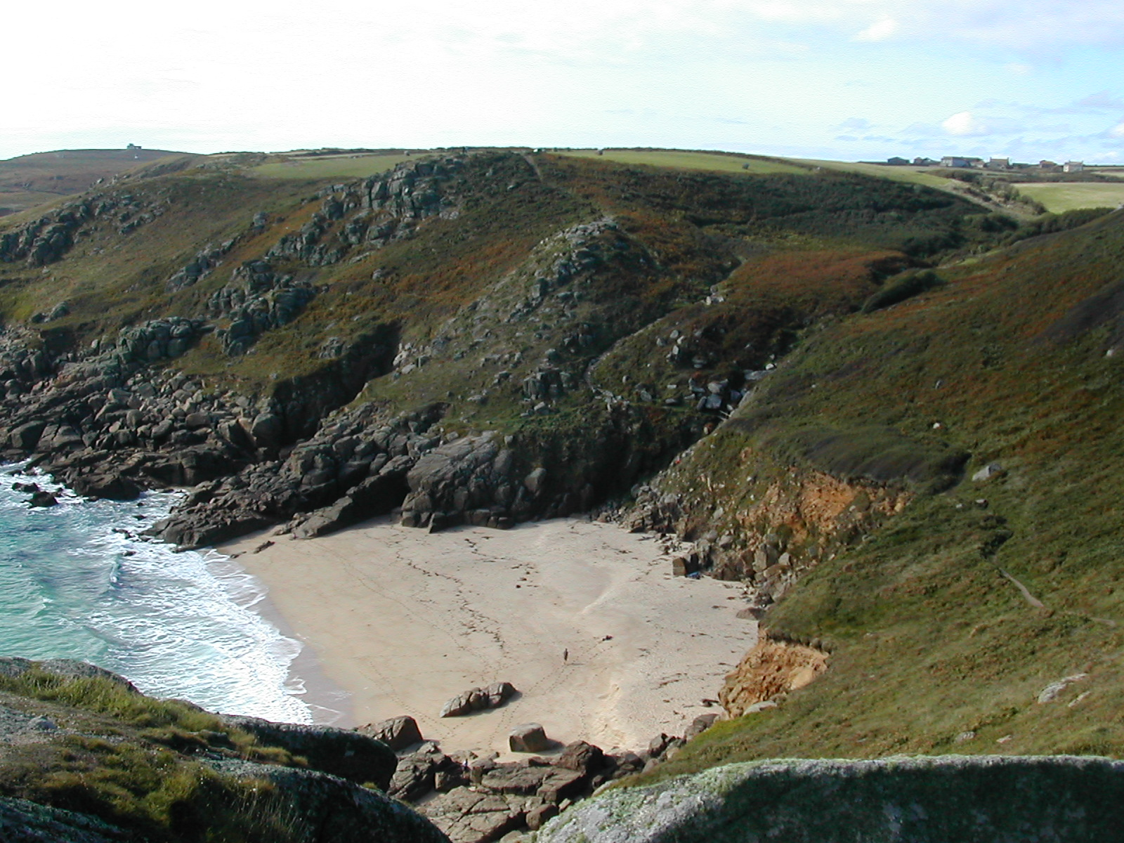 Porth Chapel Beach from Pedn-men-an-Mere looking west. Chris Angove +44-1245-353646